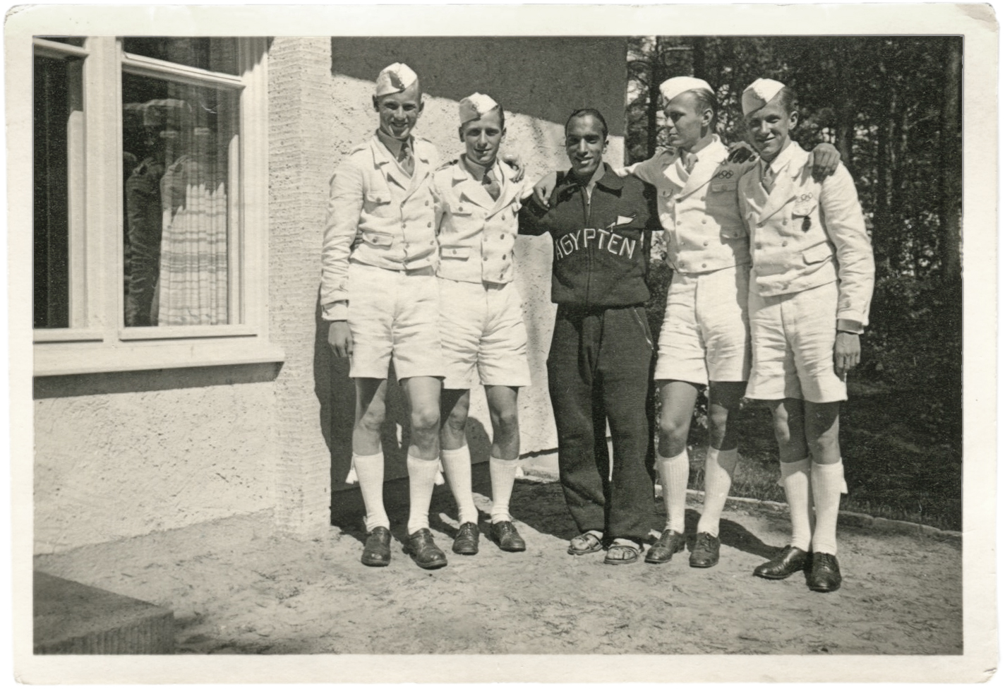 Rashad Shafshak in the Olymic Village in Berlin 1936